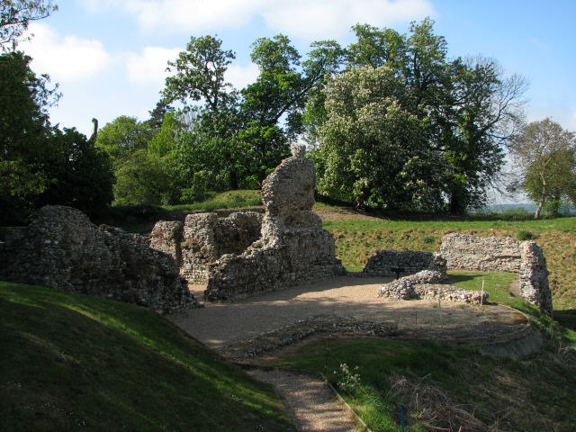 Ruins of 11th-century bishop's chapel and 14th-century fortified manor house at North Elmham, Norfolk, England